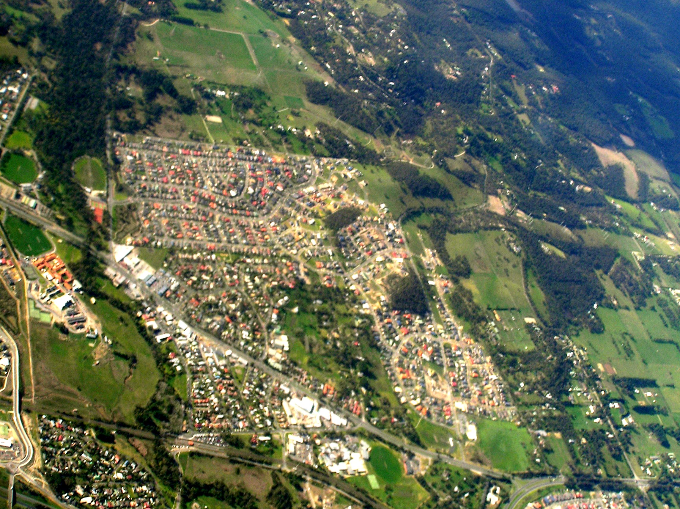 Aerial photo of Beconsfield Victoria